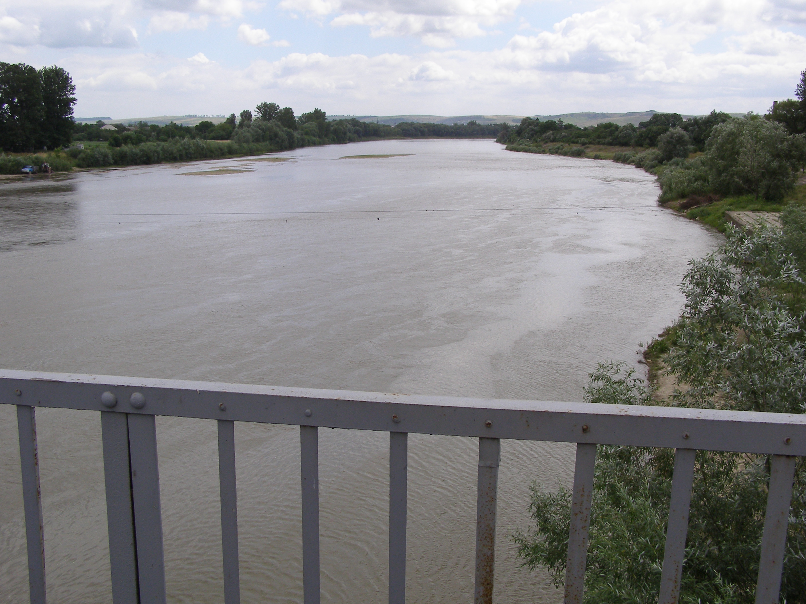 Dniester river in Halych, Ivano-Frankivsk Oblast, western Ukraine.